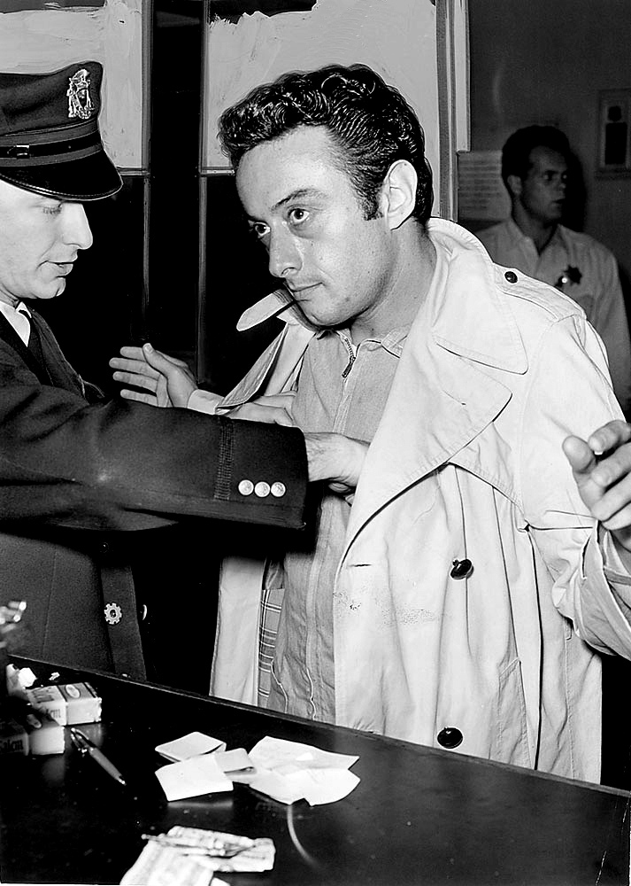 Newspaper press photo of Lenny Bruce being arrested. The photo is 7.5" x 10.5", and borderless, with corner markings on the lower right indicating that it was not trimmed of any margins. The back of the photo has the newspaper printed photo and date. A search found no copyrighted photo of Lenny Bruce renewed during the required time frame. Press photos were rarely copyrighted in any case.